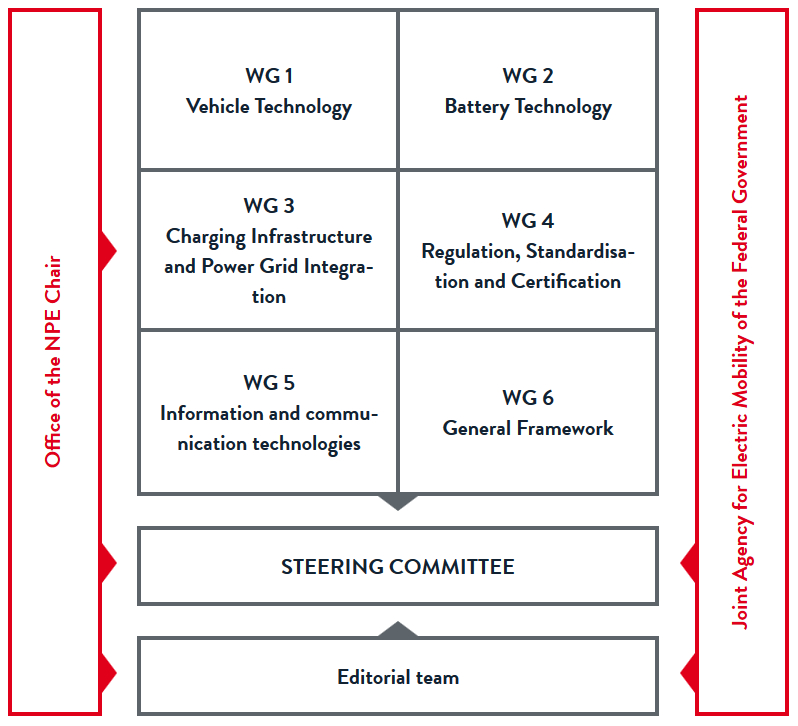 Organigramm der NPE